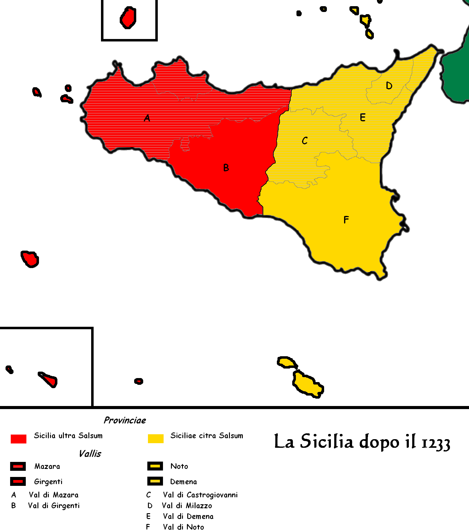 Administrative Map of Sicily during the Swevian and Angiou kingdom. Source: Lodovico Bianchini, Della storia economico-civile di Sicilia, Napoli, Stamperia Reale, 1841.